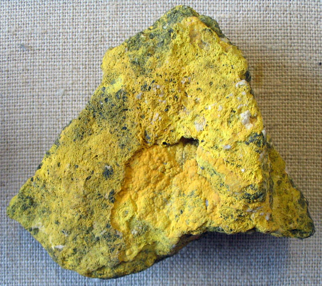 Bright yellow massive tungstite on ferberite from Calacalani, Bolivia. Photograph taken at the Natural History Museum, London.